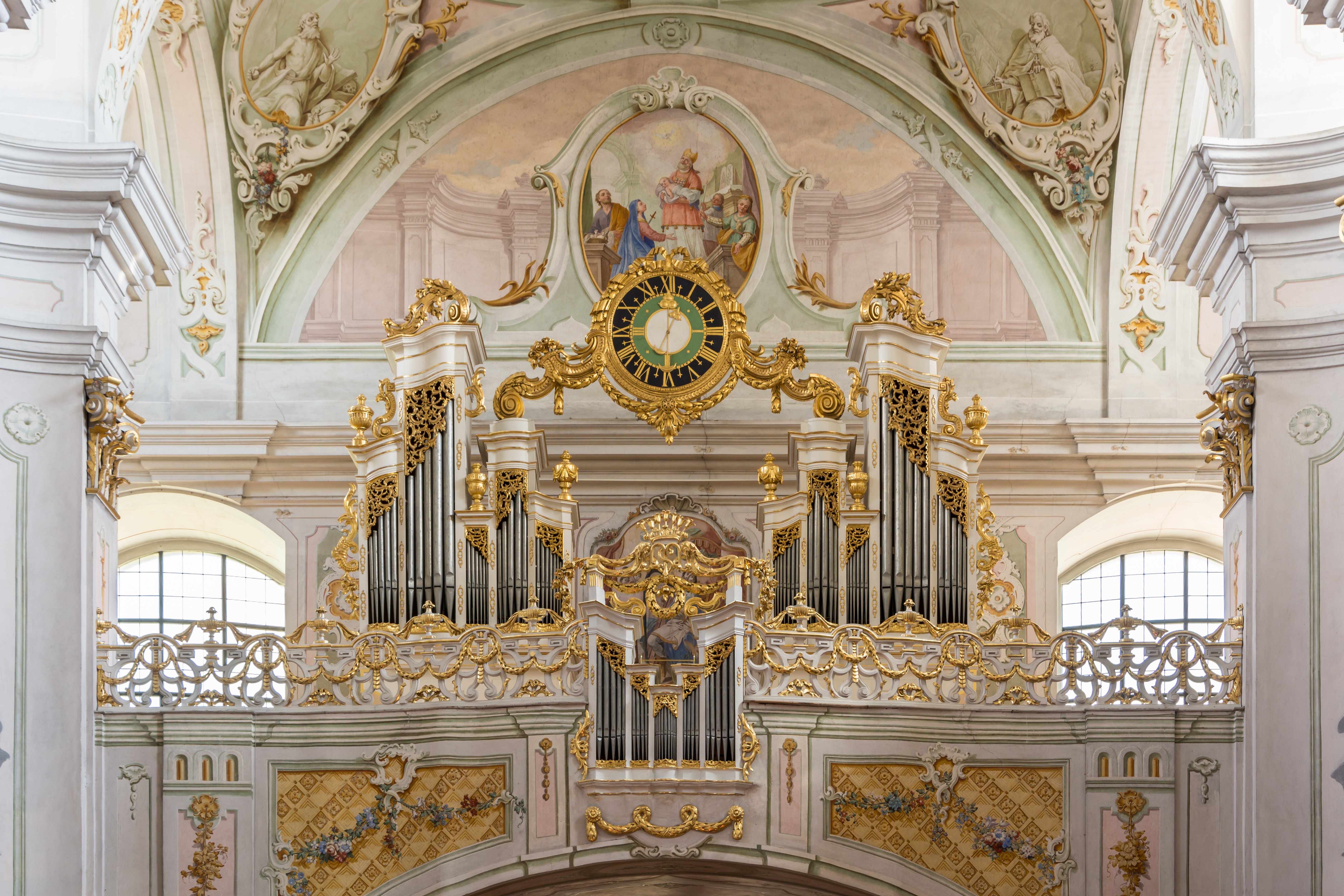 Organ of the pilgrimage church of Maria Langegg (Lower Austria) by Stephan Helmich (1781/82).